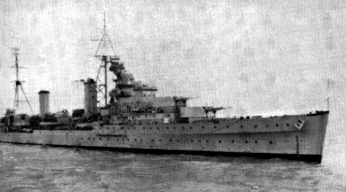 The Chinese light cruiser Chung King. Chung King was commissioned as the Arethusa-class cruiser HMS Aurora (12) of the Royal Navy on 12 November 1937. After the Second World War, Aurora was sold on 19 May 1948 to the Chinese Navy as compensation for six Chinese custom patrol ships and one freighter that the British seized in Hong Kong and lost during the war. She was renamed Chung King and became the flagship of Chinese navy. On 25 February 1949, her crew defected to the Communists and the ship was renamed Tchoung King, a variation on her previous name. In March 1949 she was sunk in Taku harbour by Nationalist aircraft. She was later salvaged with Russian assistance but then stripped bare as "repayment". The empty hulk spent the rest of her life as an accommodation and warehouse ship, being subsequently renamed Hsuang Ho (1951), Pei Ching (1951) and Kuang Chou. Her name tablet and shipbell were preserved in Military Museum of the Chinese People's Revolution in Beijing, China.